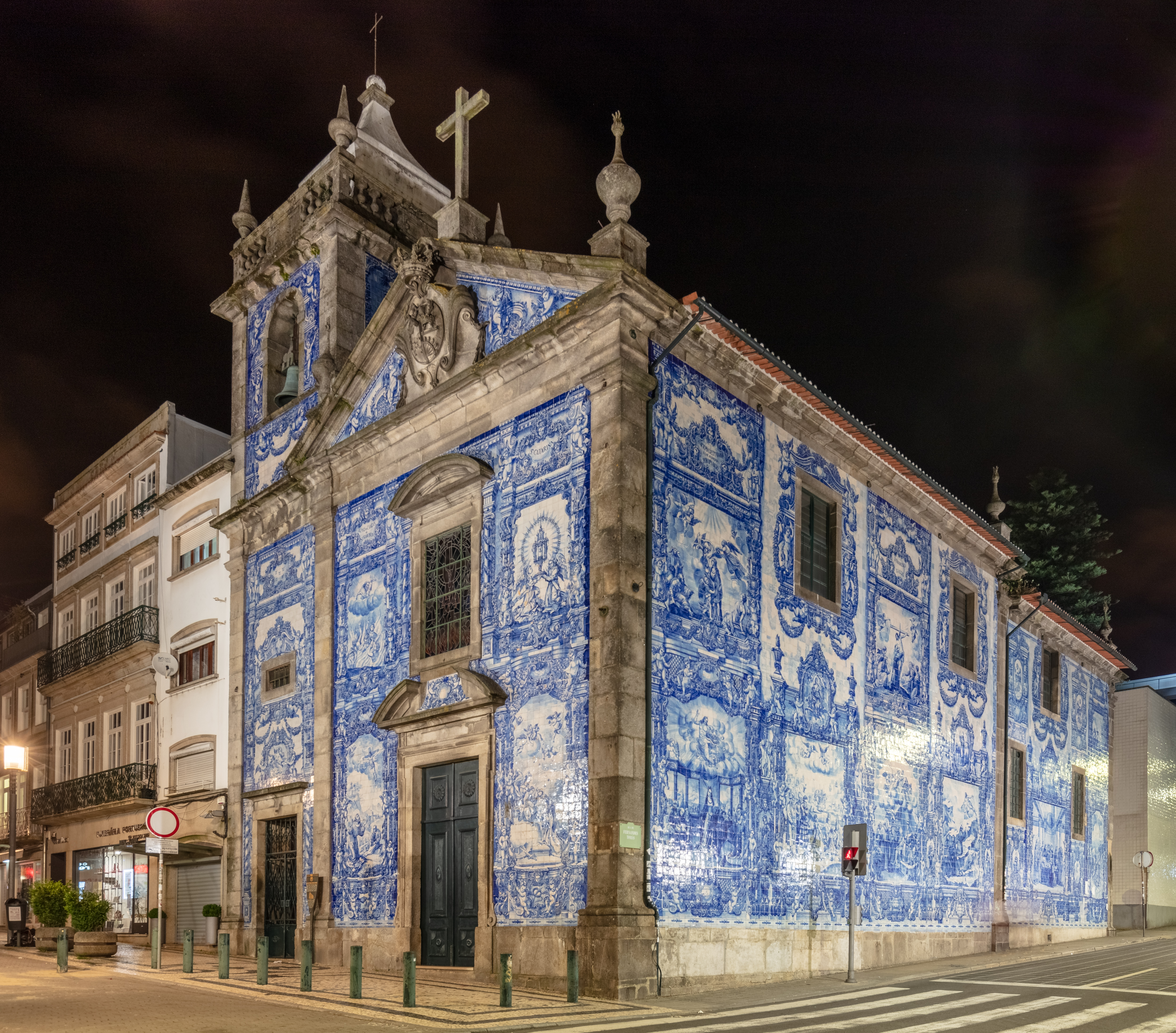 Capela das Almas, Porto, Portugal